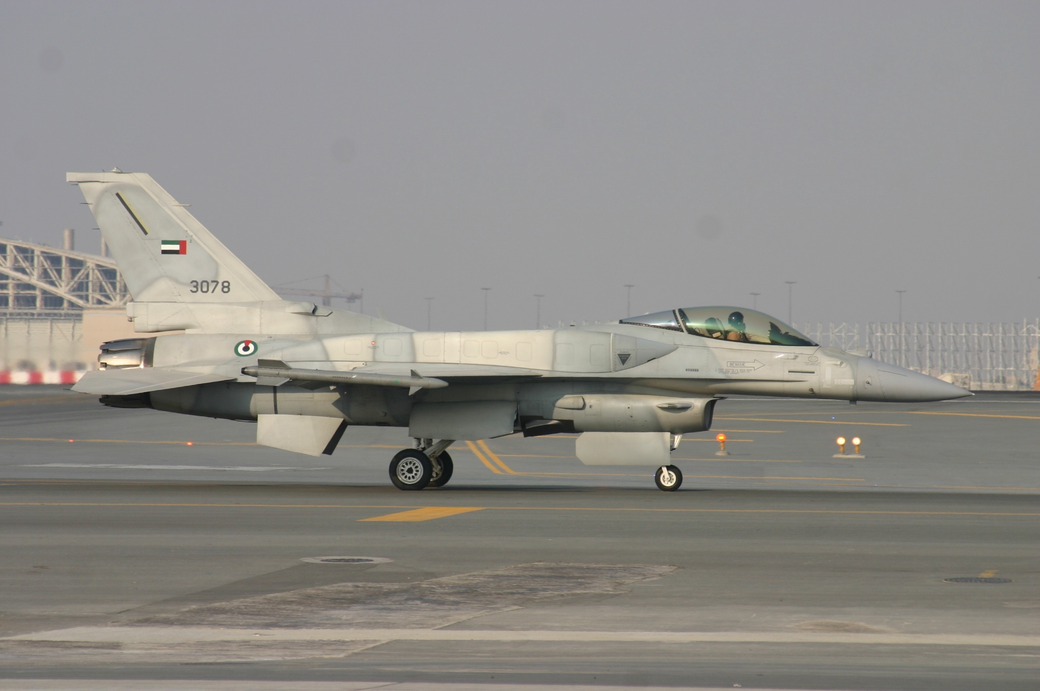 At Dubai